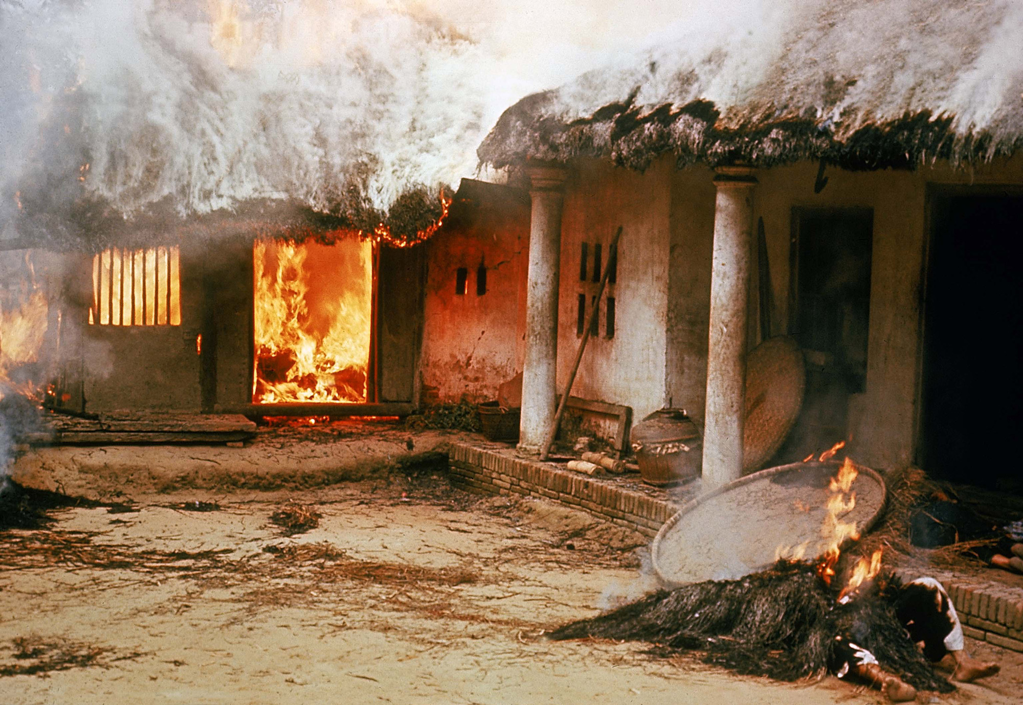 Unidentified bodies near burning house. My Lai, Vietnam. March 16, 1968.